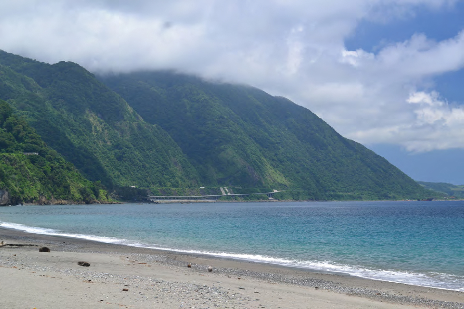 View of the north coast of Luzon, along the boundary between west Cagayan Province and Ilocos Province. Photo: JS.